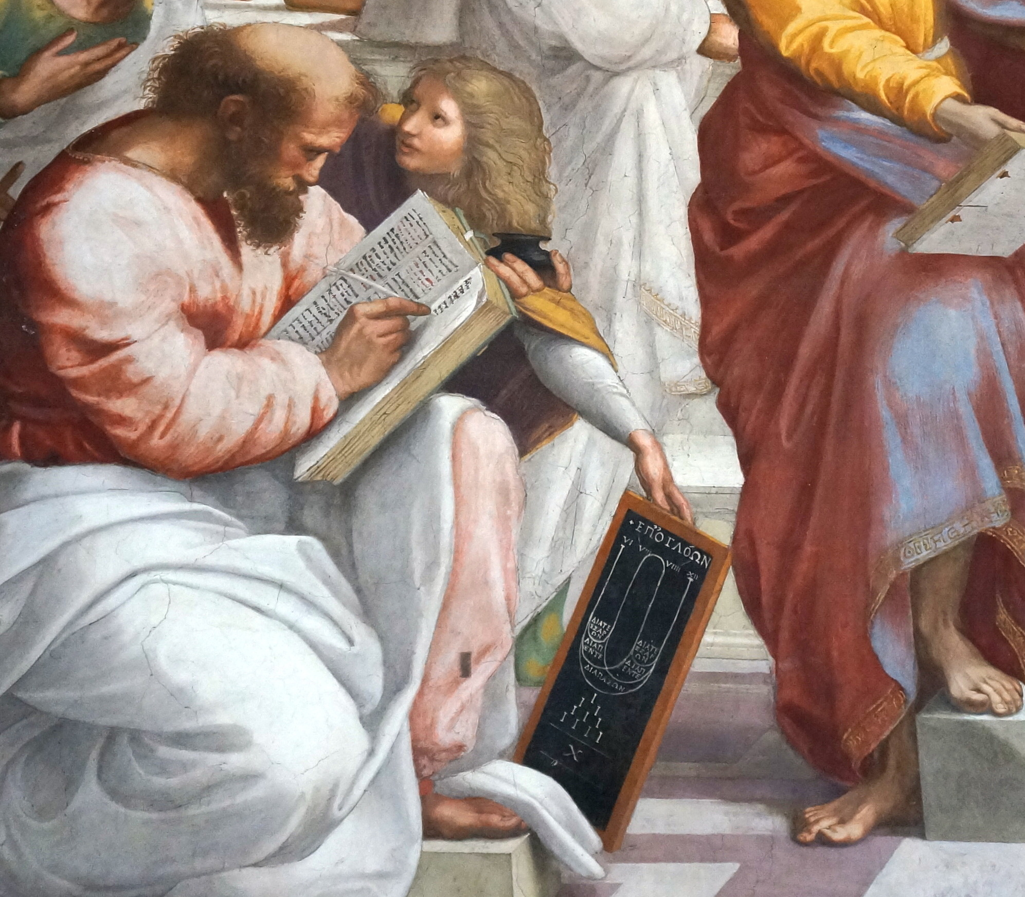 Detail of the Rafaello Stanze showing a drawing of Epogdoon, written as ΕΠΟΓΛΟΩΝ instead of ΕΠΟΓΔΟΩΝ